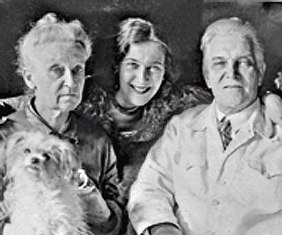 Young Lyubov Orlova with her parents, 1910s